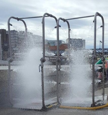 Decontamination showers for swimmers after Dublin City Swim Race to reduce risks of infection